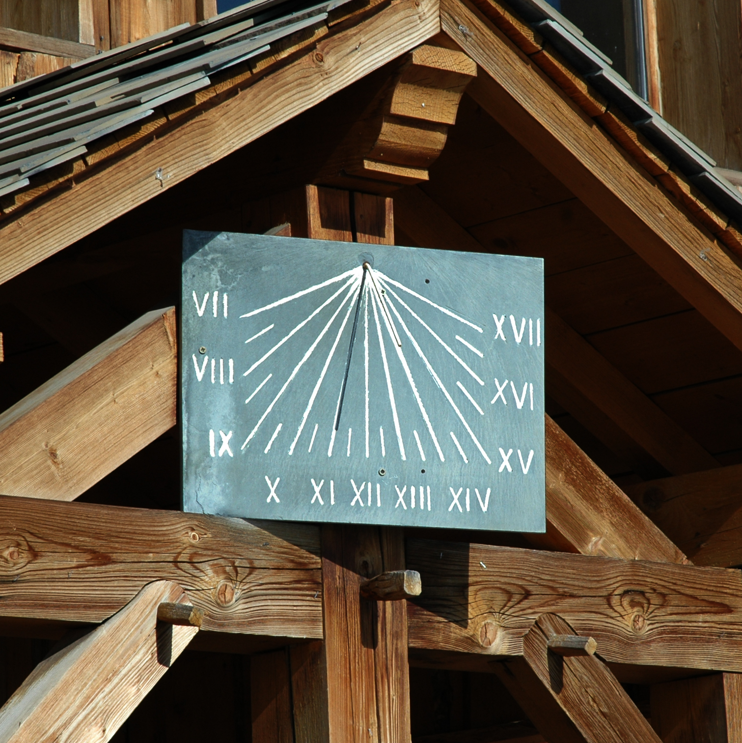 Sundial on a chalet in Méribel, France.